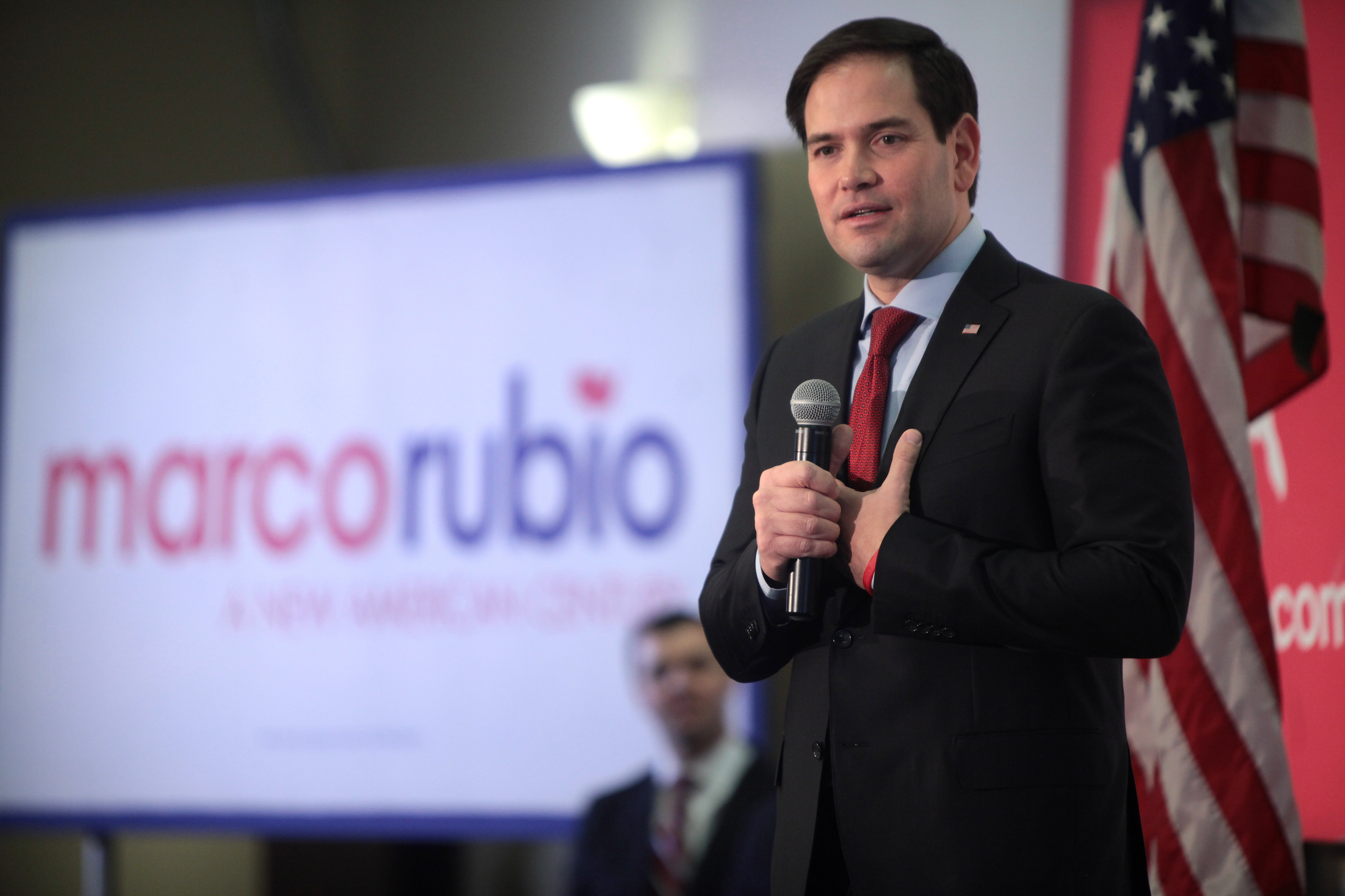 U.S. Senator Marco Rubio speaking with supporters at a campaign rally featuring U.S. Senator Joni Ernst at the Forte Banquet Center in Des Moines, Iowa.